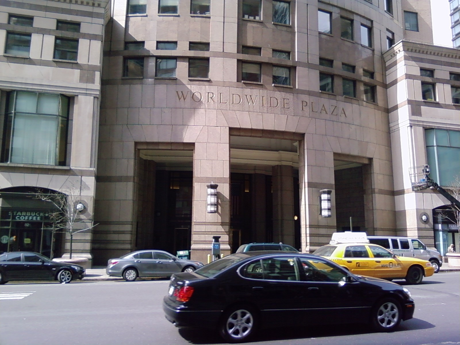 Main entrance of Worlwide Plaza on 8th Avenue in New York. See also File:Worldwide-plaza-facingeast-small.jpg.